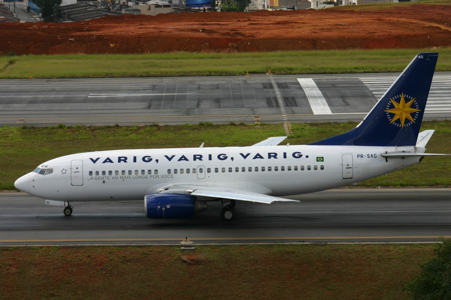 At Sao Paulo Congonhas